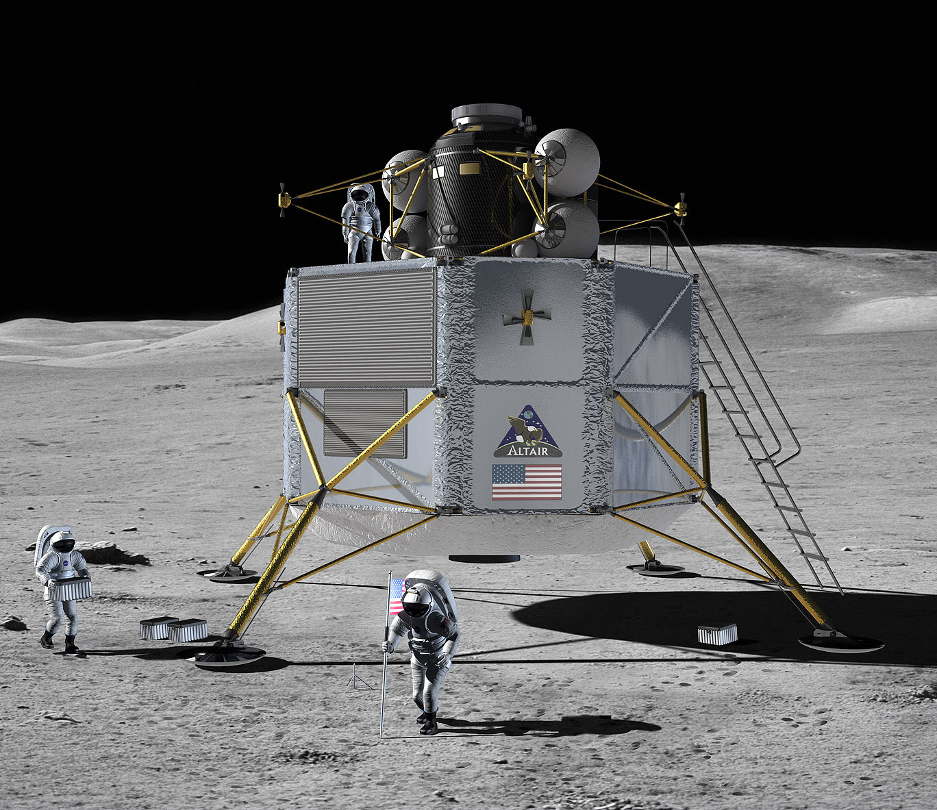 JSC2007-E-113280 (Dec. 2007) --- Three crewmembers work in the area of their lunar lander on the lunar surface in this NASA artist's rendering. NASA has selected Altair as the name of the lunar lander the Constellation Program will use to put humans on the moon. Project Altair Manager Lauri Hansen made the announcement at a recent industry event at NASA's Johnson Space Center in Houston. Altair will be capable of landing four astronauts on the moon, providing life support and a base for weeklong initial surface exploration missions, and returning the crew to the Orion spacecraft that will bring them home to Earth. Altair will launch aboard an Ares V rocket into low-Earth orbit, where it will rendezvous with the Orion crew vehicle. Please note that this artwork is not precise. NASA currently is seeking input from industry experts and is developing conceptual designs for Altair.